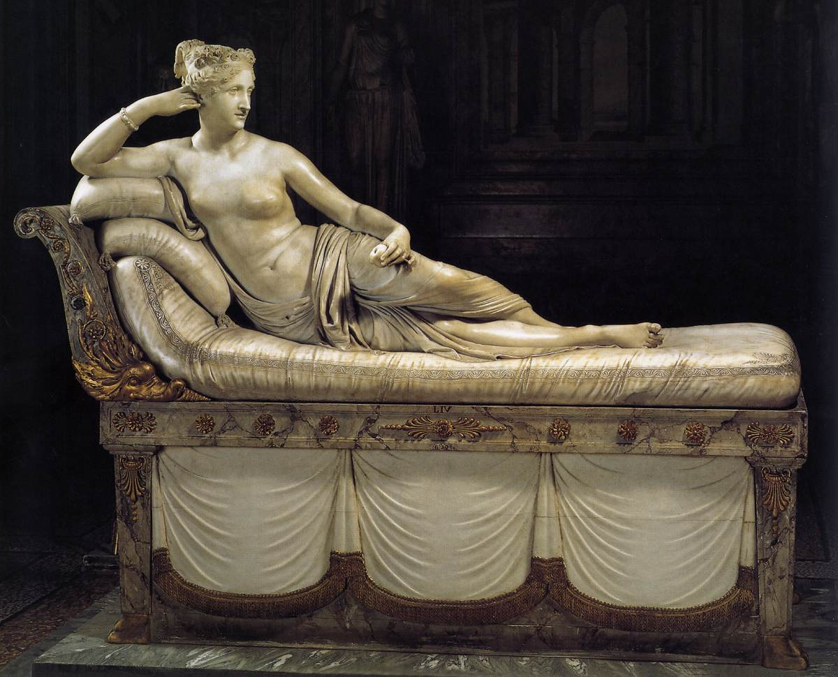 Paolina Borghese, Canova